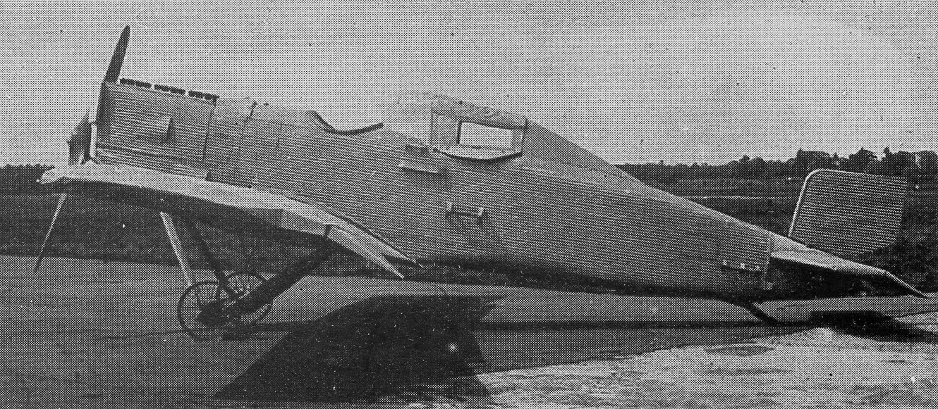 Junkers J.10, modified to carry one passenger in cabin formed by covering the rear gunner's position. Brought to Martlesham Down after World War I and largely restored for testing but lost in 1922 hanger fire before flying.